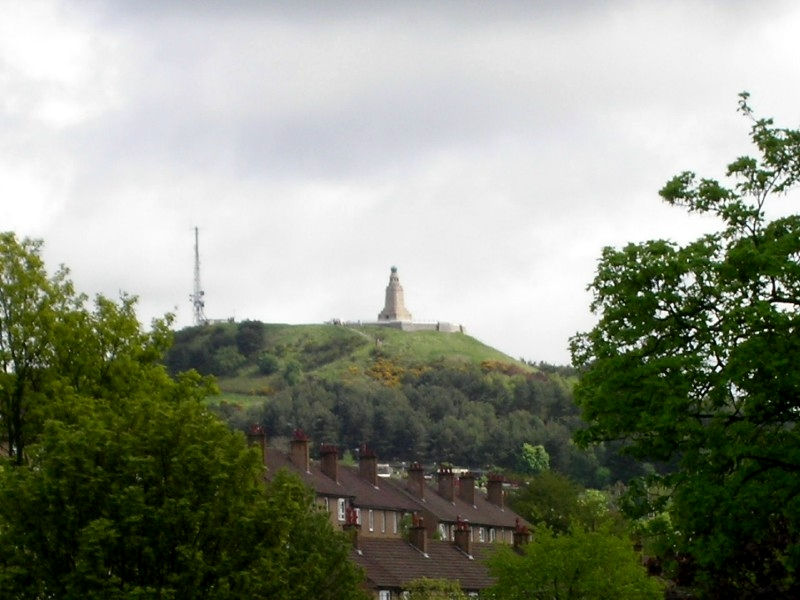 Dundee Law as photographed from Logie